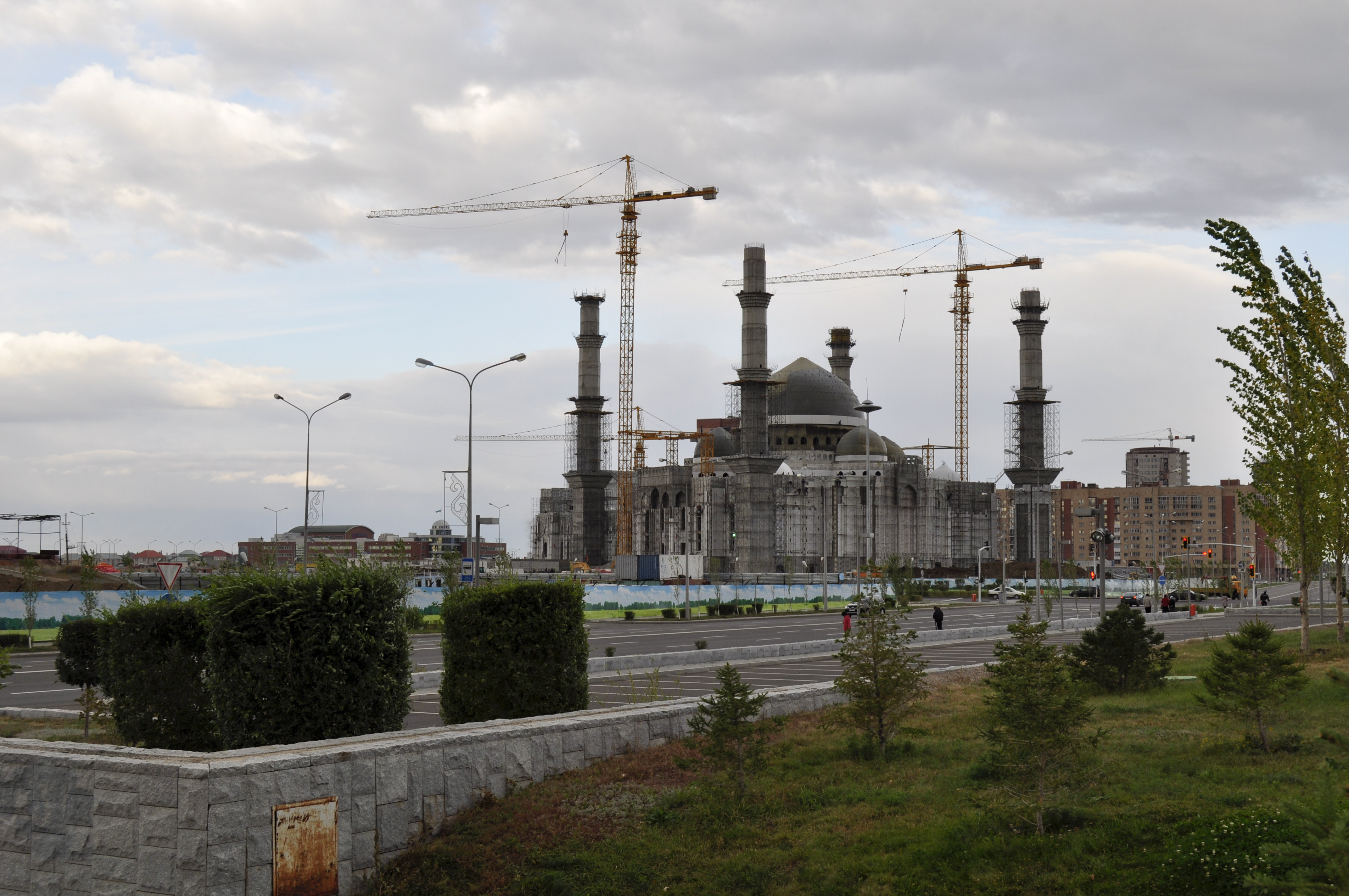 Construction of new mosque close to Palace of Peace and Reconciliation, Nur-Sultan, Kazakhstan